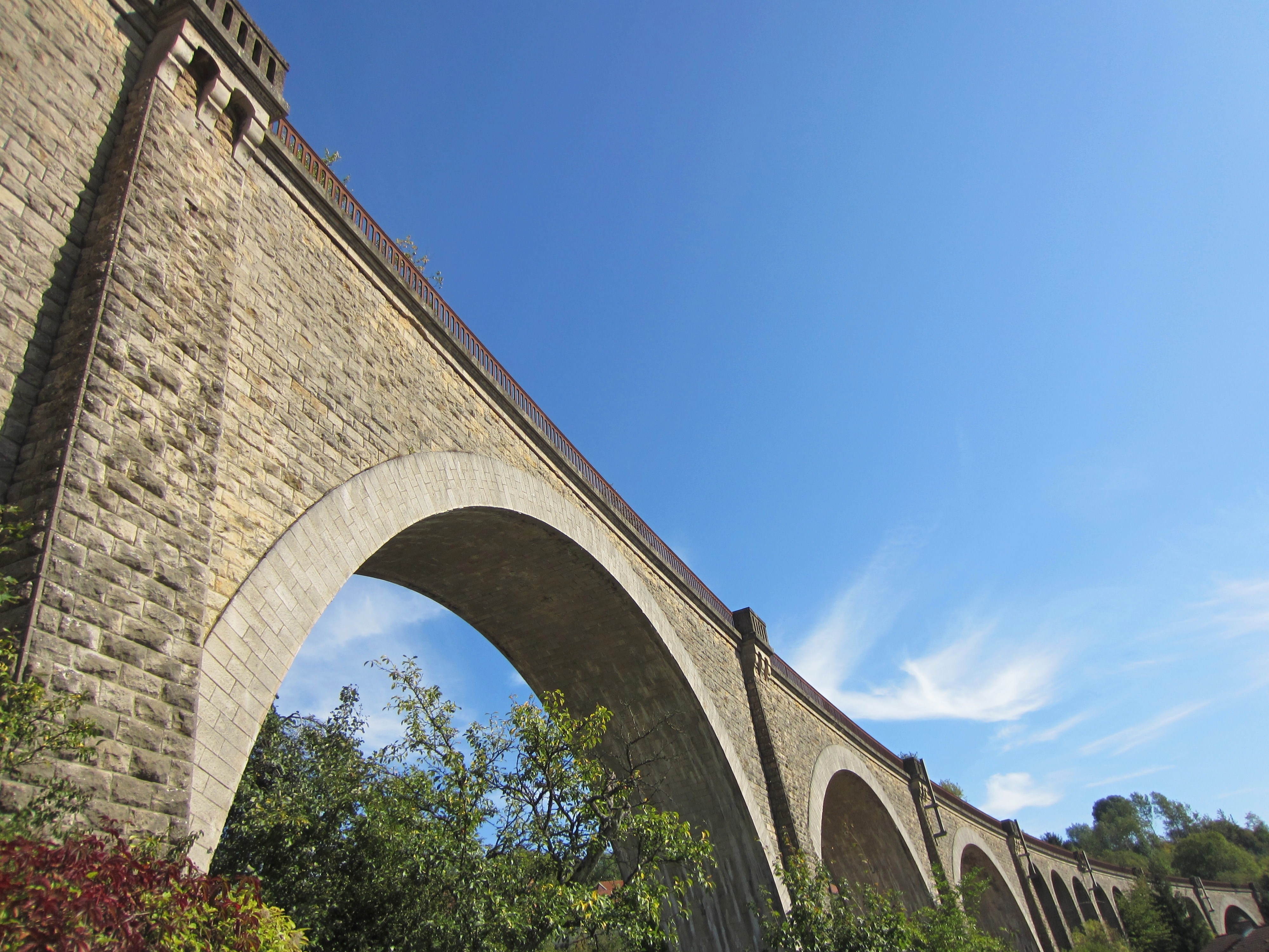 Description pont de Thil Date16 September 2011Sourcemon appareil photoAuthorAimelaimePermission (Reusing this file) pont de Thil